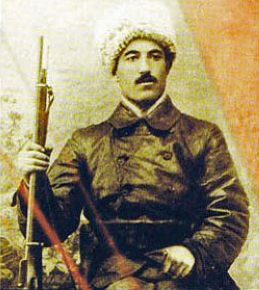 Garo Sassouni during WW1